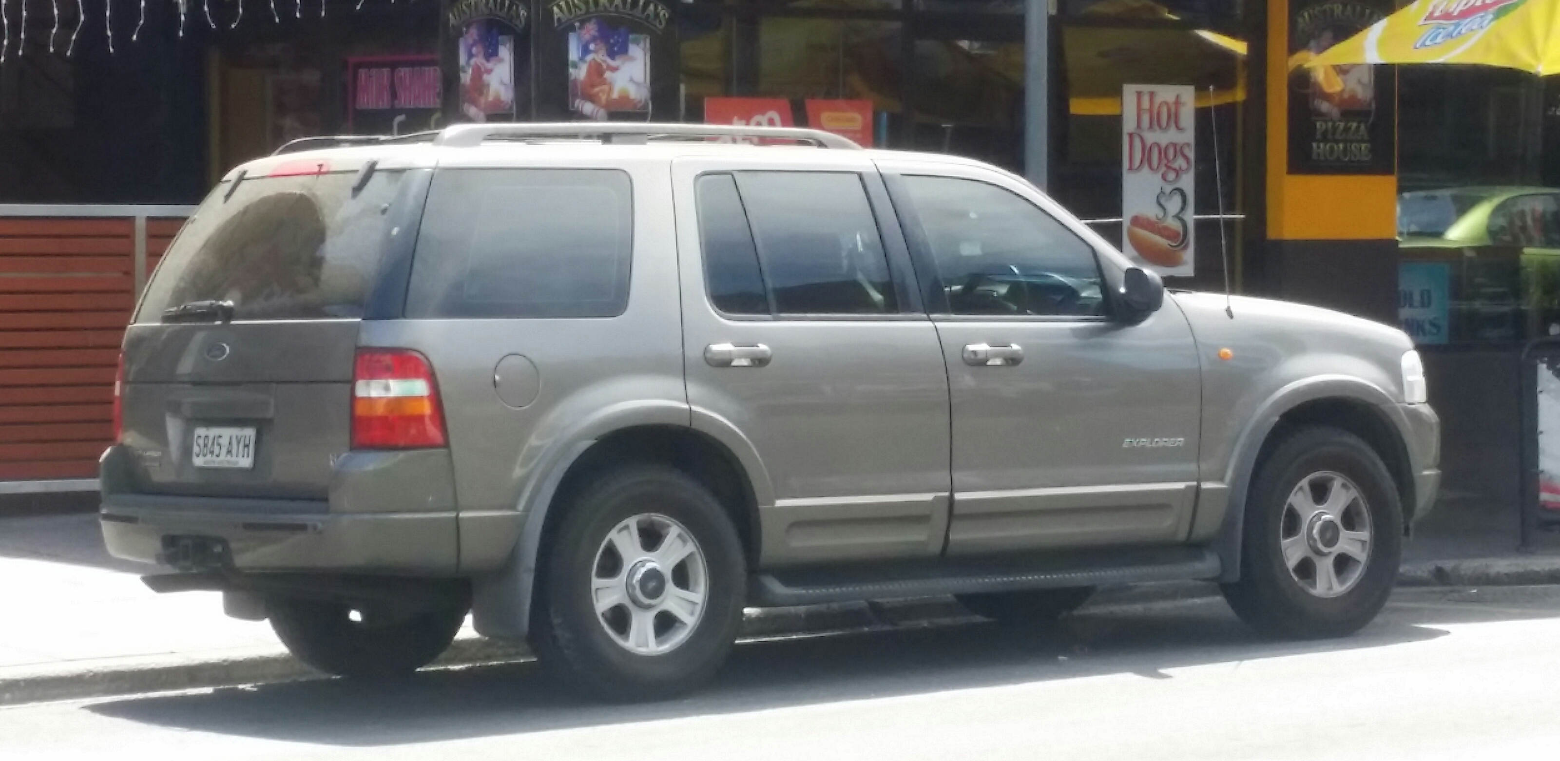 This shape was the last of the Explorers to make it to Australia. After Ford Australia released the home grown Ford Territory SUV, the Explorer died a slow death!